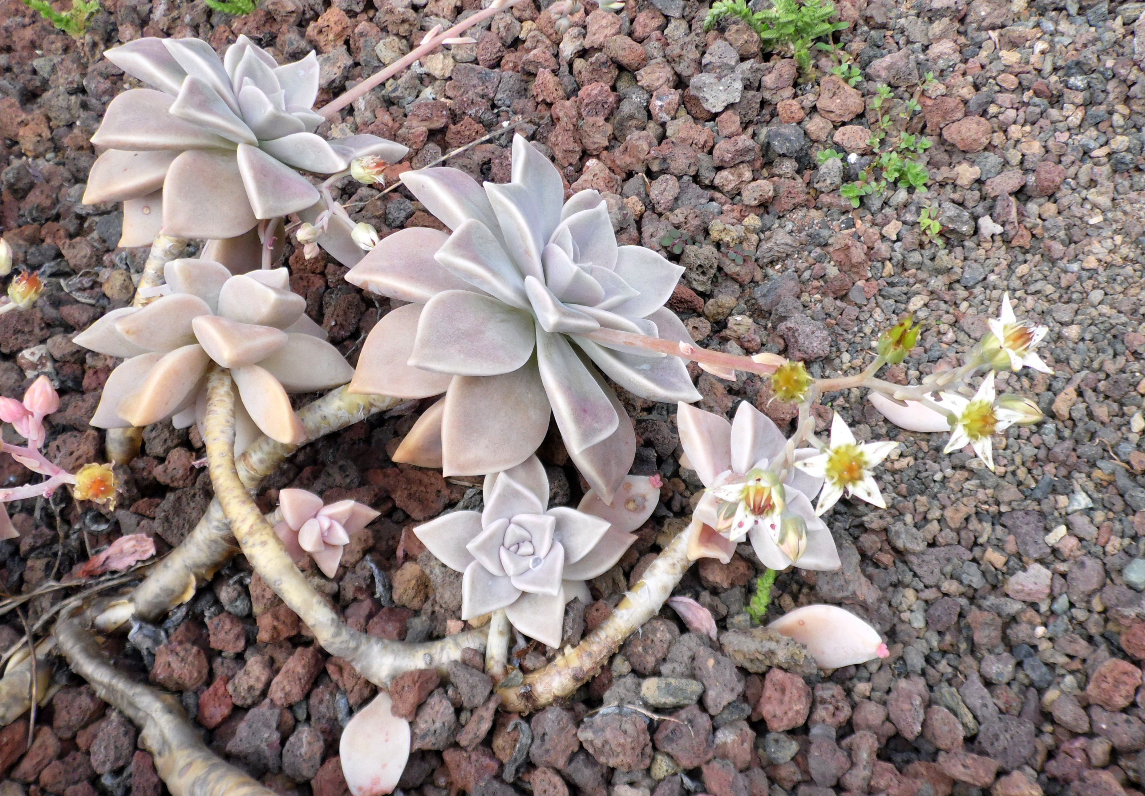 Graptopetalum paraguayense in Jardín Botánico Canario Viera y Clavijo